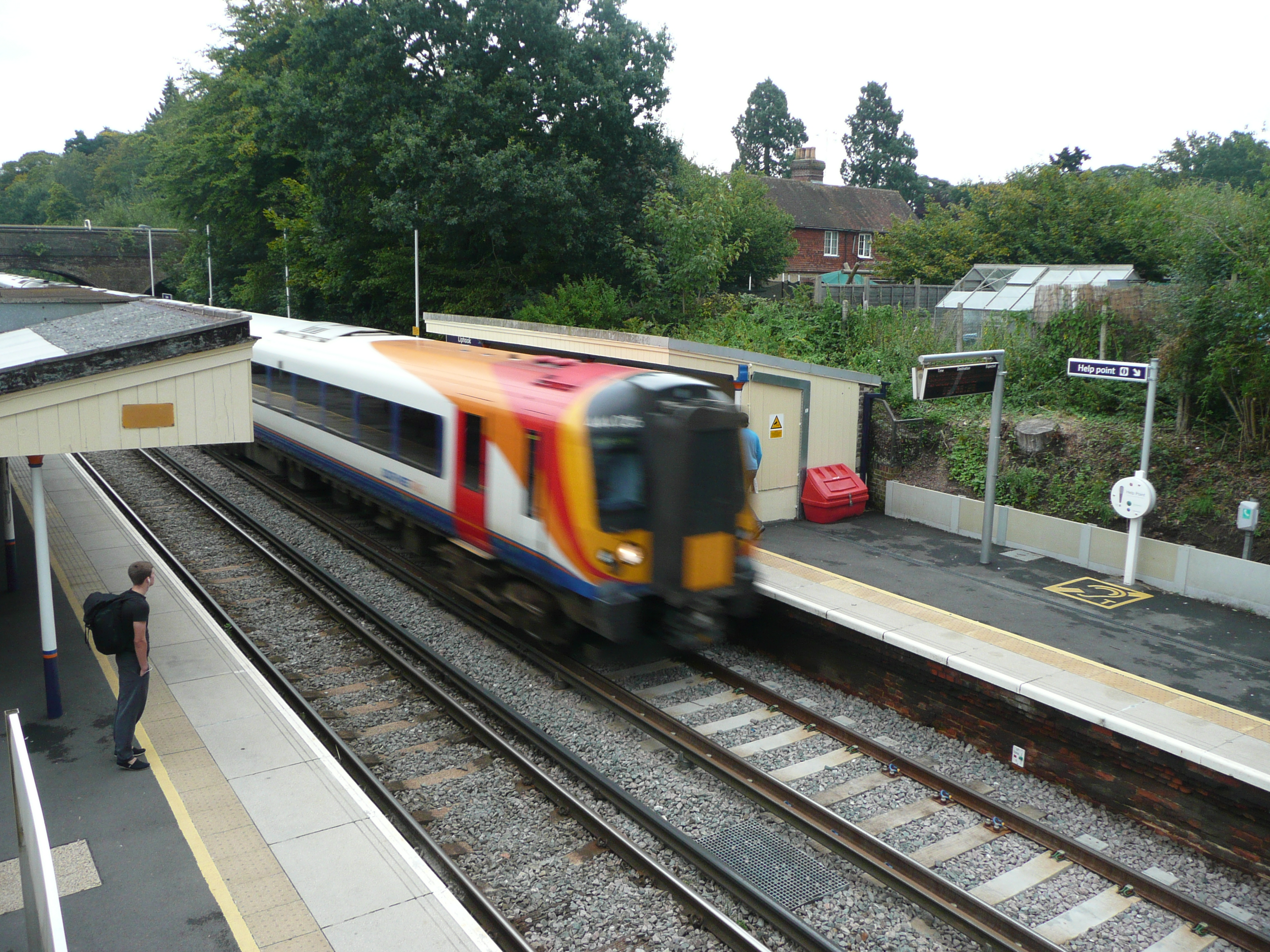 British Rail Class 444 unit (444 026) passing through Liphook Railway Station in Liphook, Hampshire, England. The train is travelling in a southbound direction on the Portsmouth Direct Line.